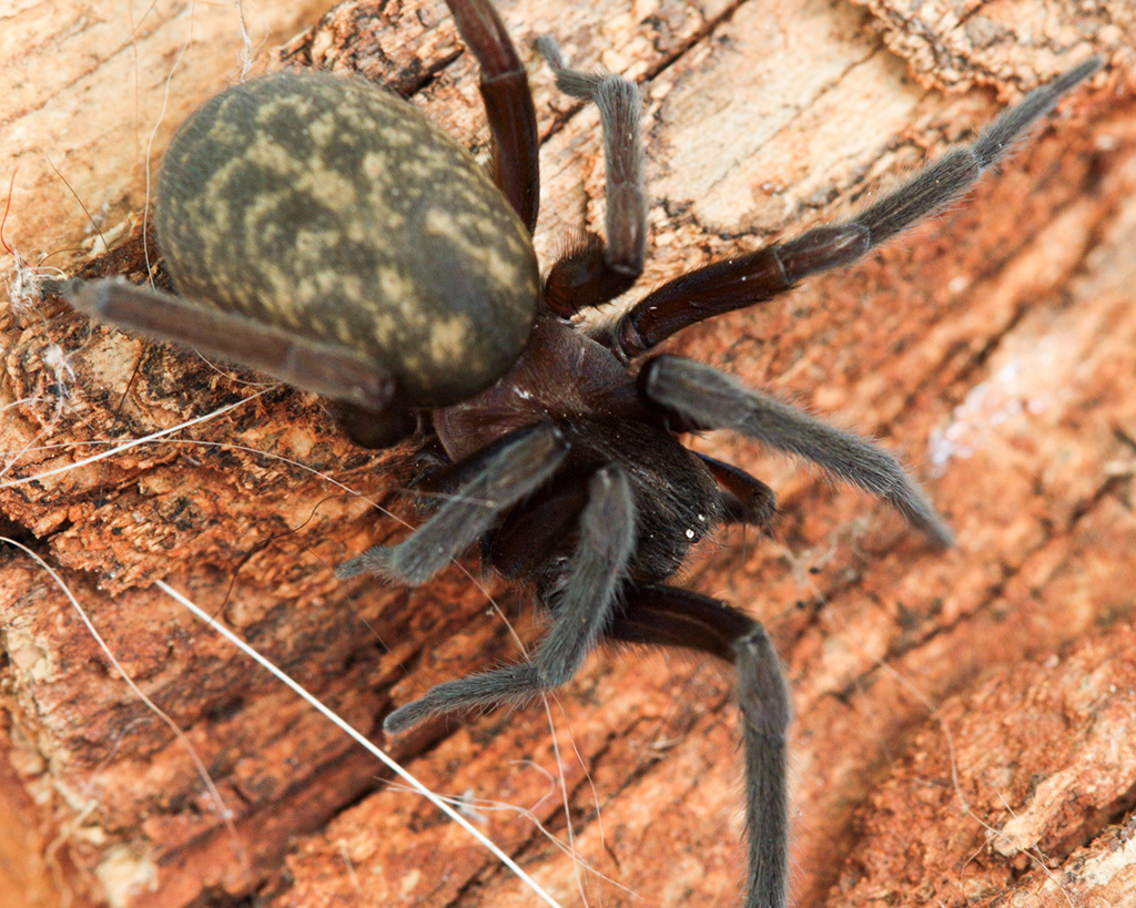 This one lives in a messy tube type web built in between a corner of my stoep wall and a log standing in said corner. Pic 4 shows what might be two egg sacs left behind after I inadvertently destroyed most of the nest by picking up the log. A very similar looking spider (last four pics) lived in our garage for about a year, in a tube shaped nest built into a window frame. I released it in the garden and have noticed a new messy funnel nest in a potplant nearby, perhaps the same individual. Medium sized spiders, about 15-20mm body length. This media file is part of an observation on iNaturalist:Please specify an ID!This tag does not indicate the copyright status of the attached work. A normal copyright tag is still required. See Commons:Licensing.